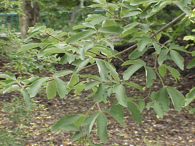 Species: Acer griseum Family: Aceraceae Image No. 2